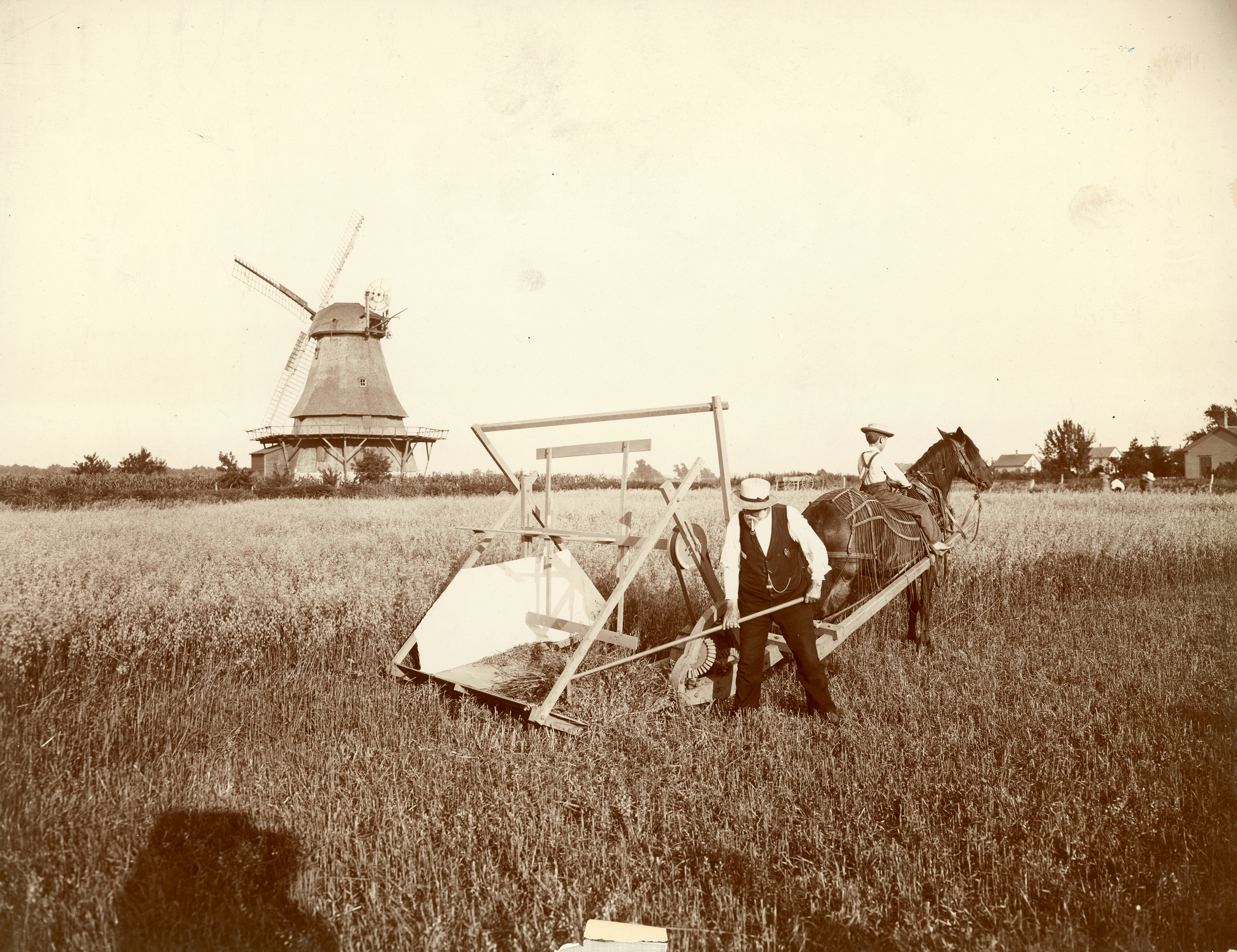 The Cyrus McCormick's reaper at the presentation in Virginia (USA), middle 19th century most likely